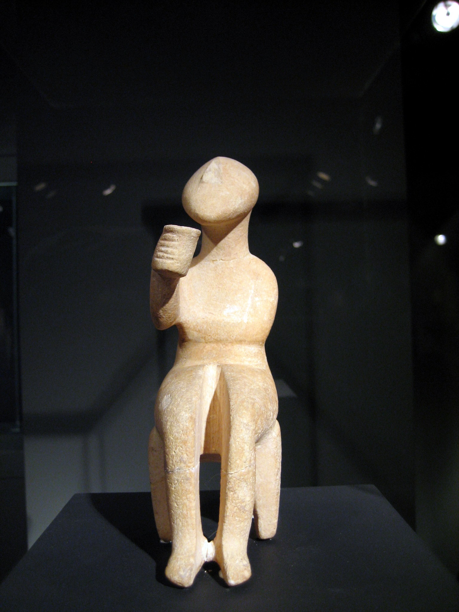 Cycladic figurine, The "cup bearer", 15.2 cm, #286 in the 1968 catalogue